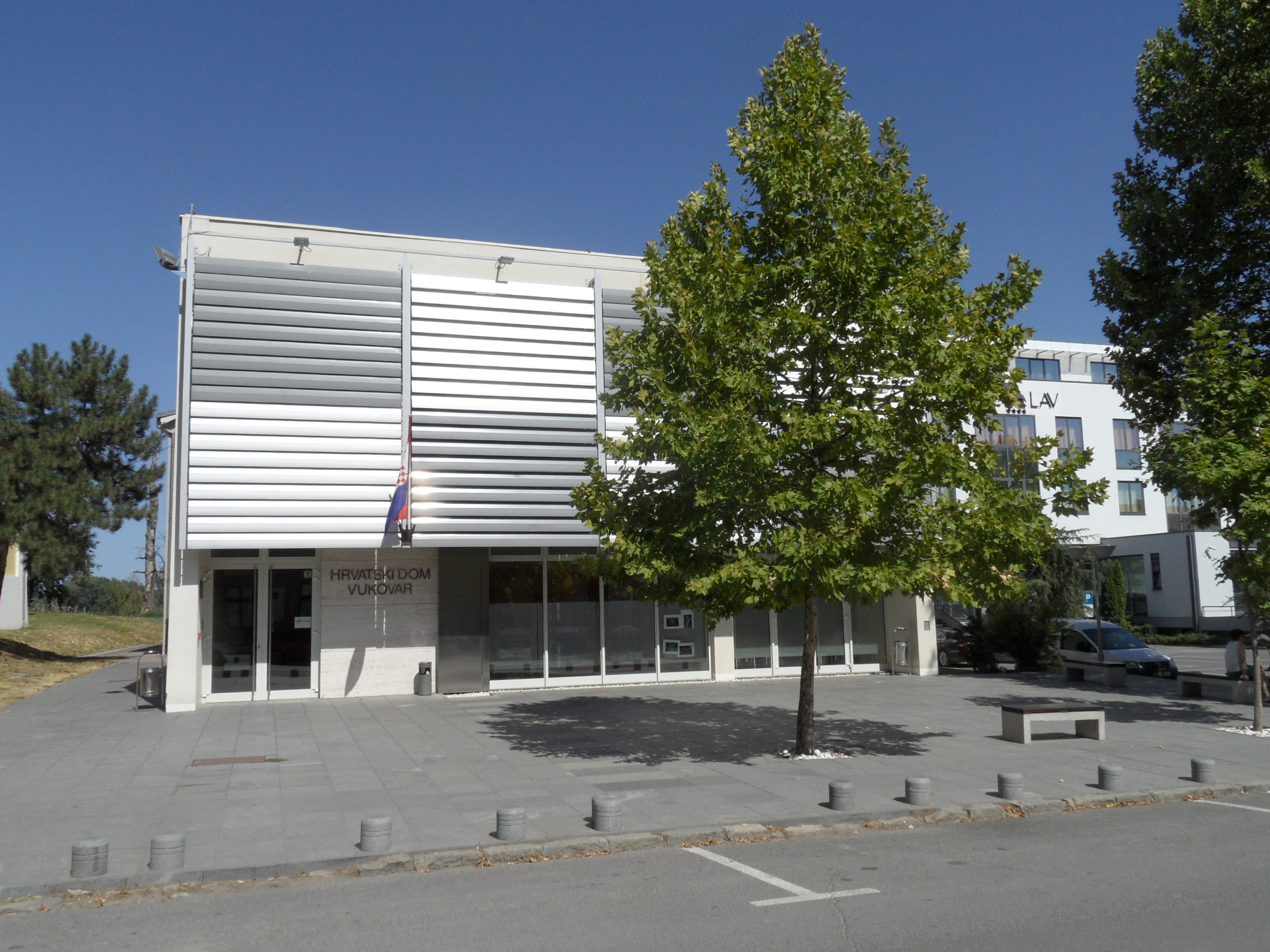 Vukovar, Croatia, Hrvatski dom (Croatian house)